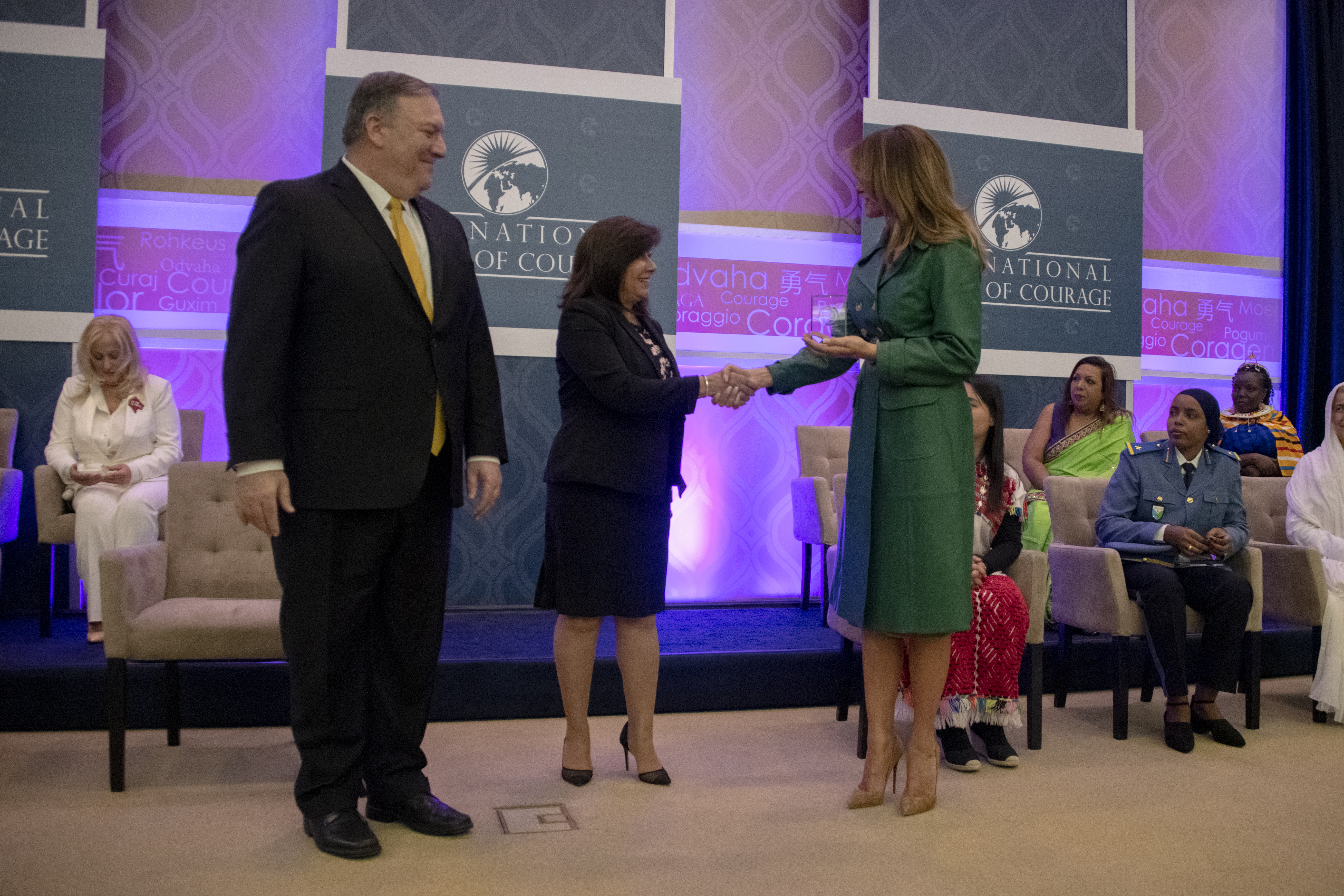 U.S. Secretary of State Michael R. Pompeo and First Lady of the United States Melania Trump present Flor de Maria Vega Zapata from Peru with the 2019 International Women of Courage (IWOC) Award during the ceremony at the U.S. Department of State in Washington, D.C., on March 7, 2019. [State Department photo by Ron Pryzsucha/ Public Domain]